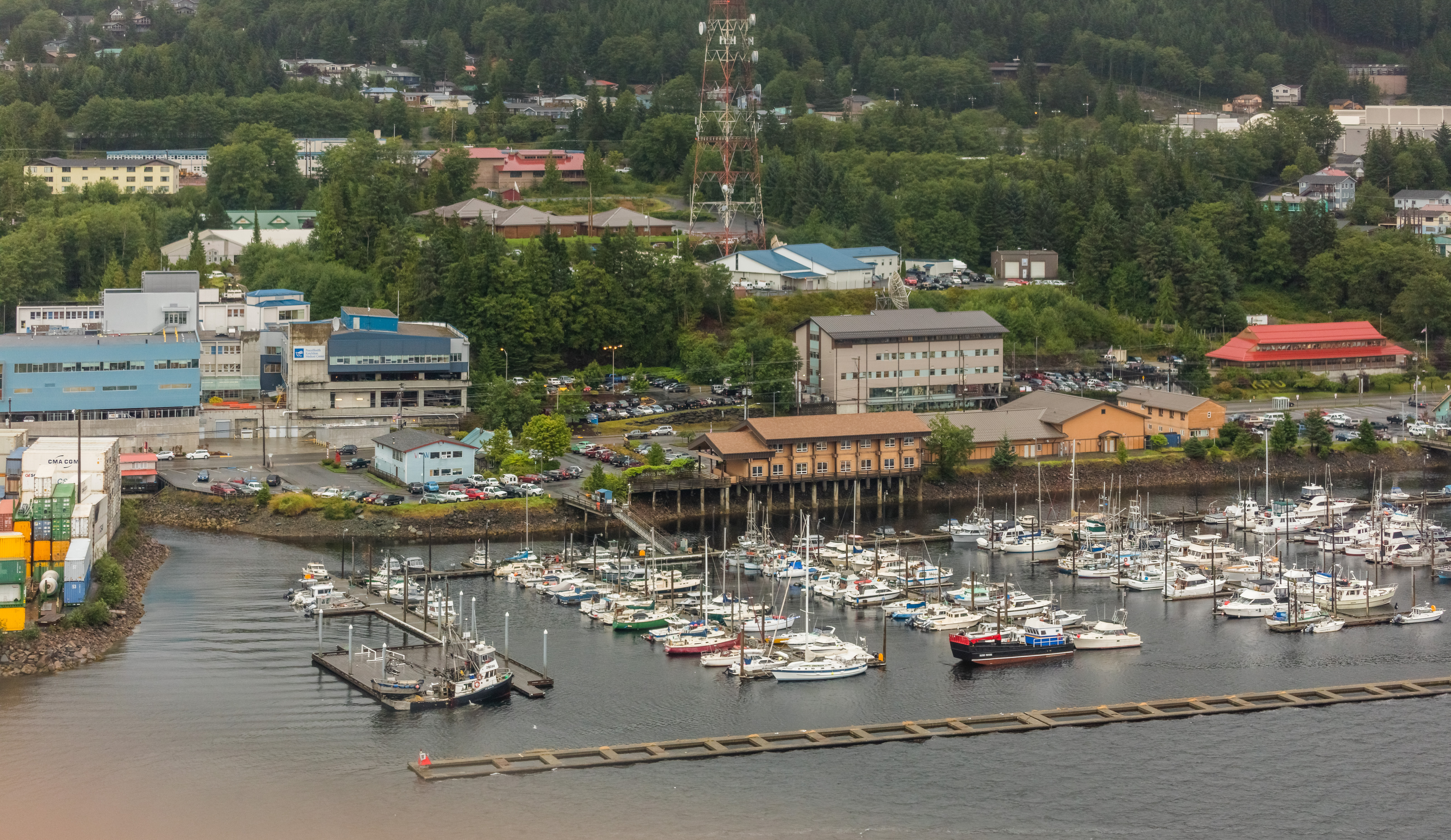 Ketchikan, Alaska, United States